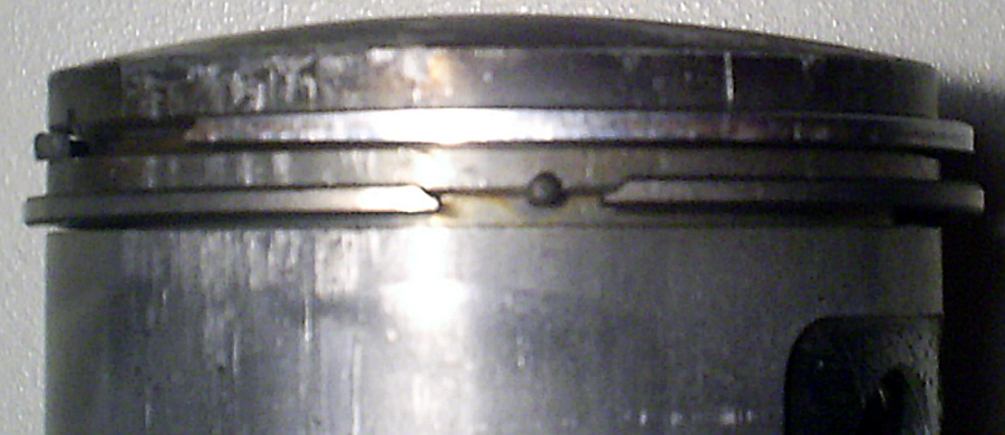 A pair of piston rings mounted on a 47mm piston. Note the use of a pin to prevent the piston rings rotating around the piston. This is a feature of piston-ported engines, most of which (and for those 47mm diameter, we can assume all of them) are two-strokes. Picture taken and released into the public domain by User:Kallemax.